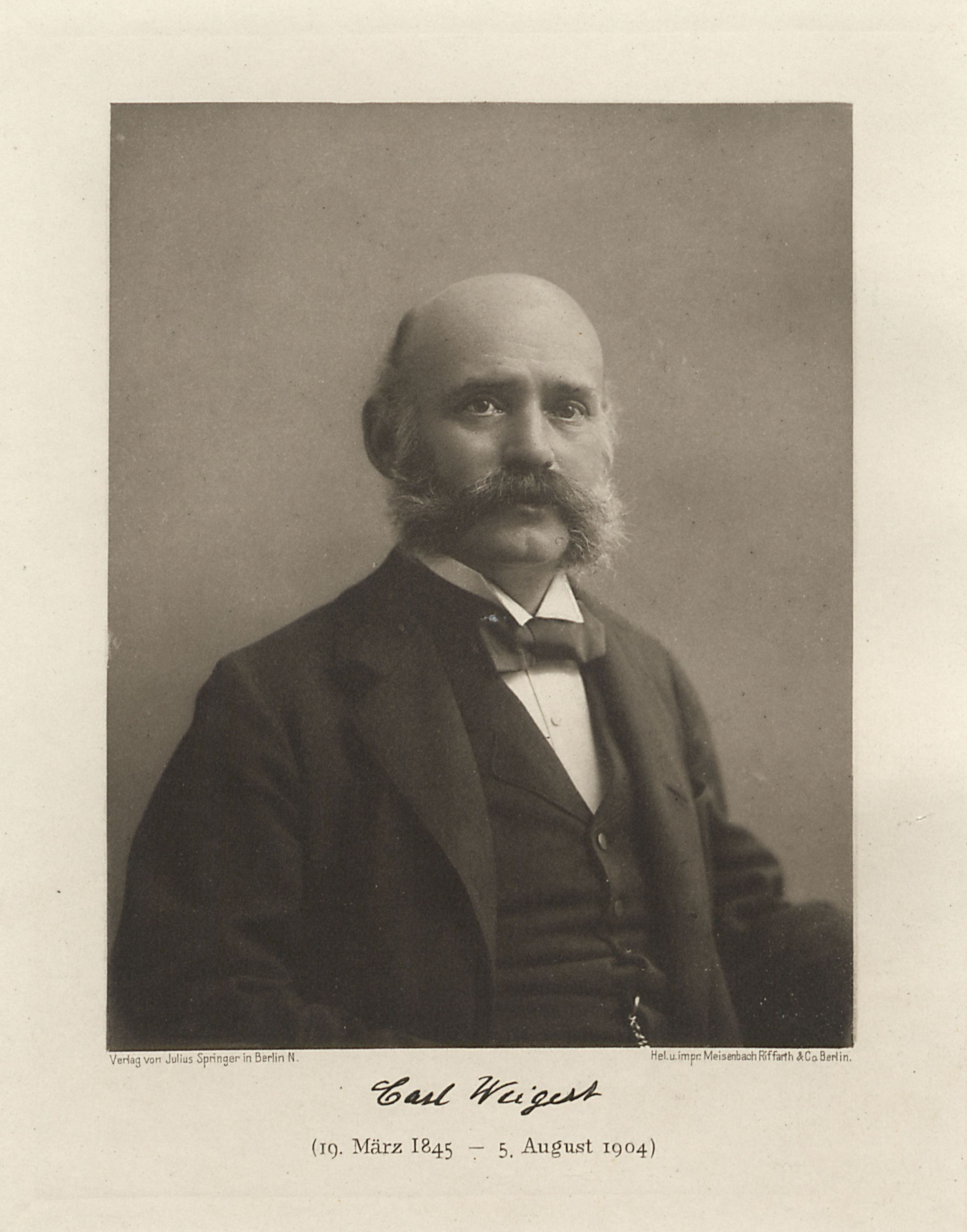 Carl Weigert (1845-1904)